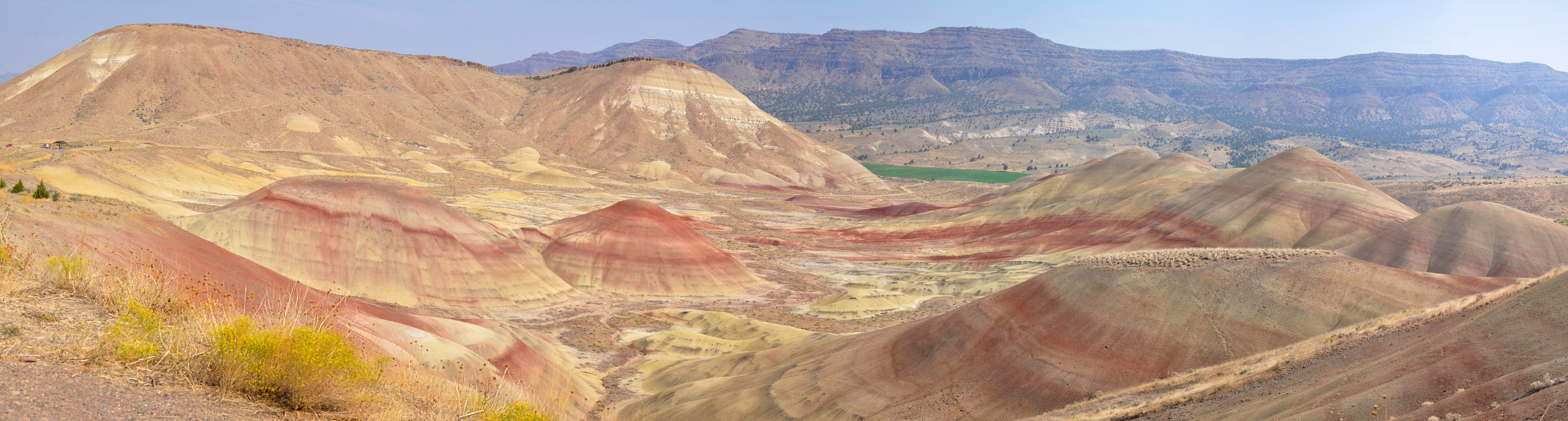 Panorama of hills in the Painted Hills Unit of the John Day Fossil Beds National Monument in the U.S. state of Oregon. Taken from a bench at the end of the Painted Hills Overlook Trail. Carroll Rim is in the background to the left. Sutton Mountain is in the background to the right. The green strip in the center is an irrigated field along Bridge Creek. Originally 12 vertical images. This panoramic image was created with Autostitch. Stitched images may differ from reality.